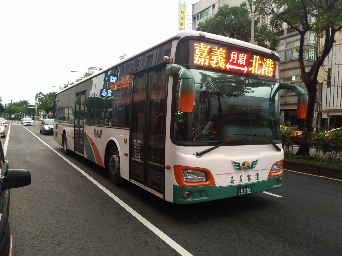 Chiayi Bus HINO HS8J nonstep Bus 198-U9